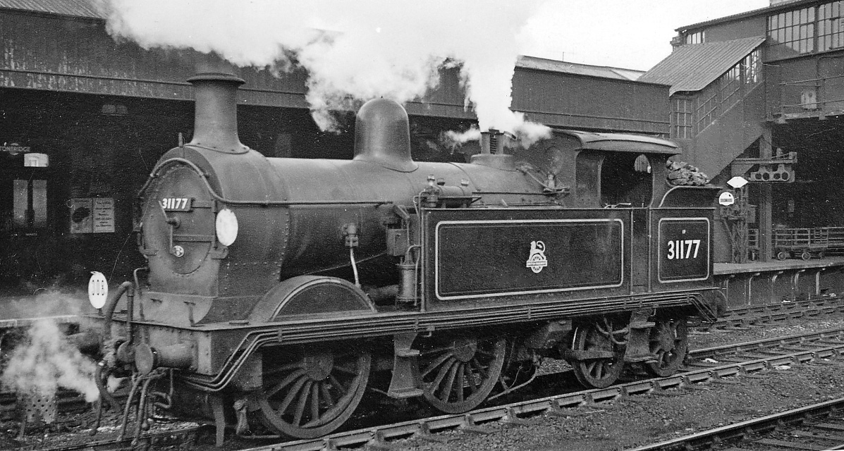 EX-SE&CR 0-4-4T at Tonbridge Station. Passing on the Down Through line of the ex-SE&C main line, London/Redhill - Ashford - Dover etc. is Wainwright H class motor-fitted 0-4-4T No. 31177 (built 3/1909, withdrawn 10/61). Several of these were employed on branch lines in the area.